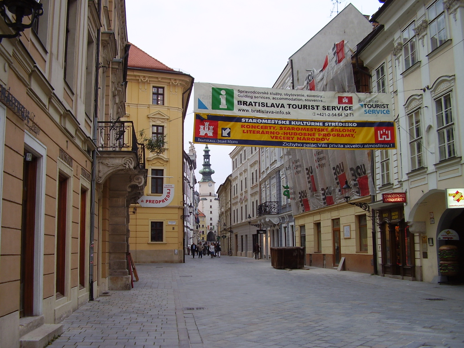 Bratislava city centre